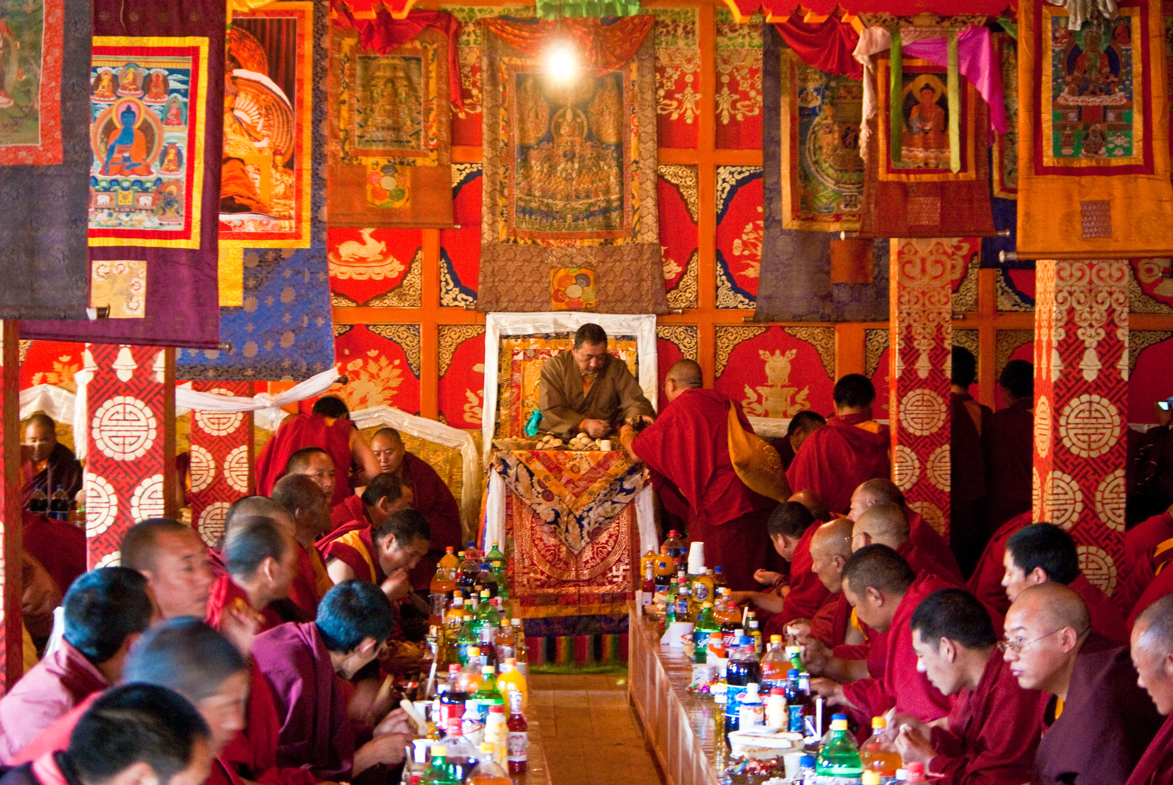 Buddhist monks of Tibet (in the Kham)